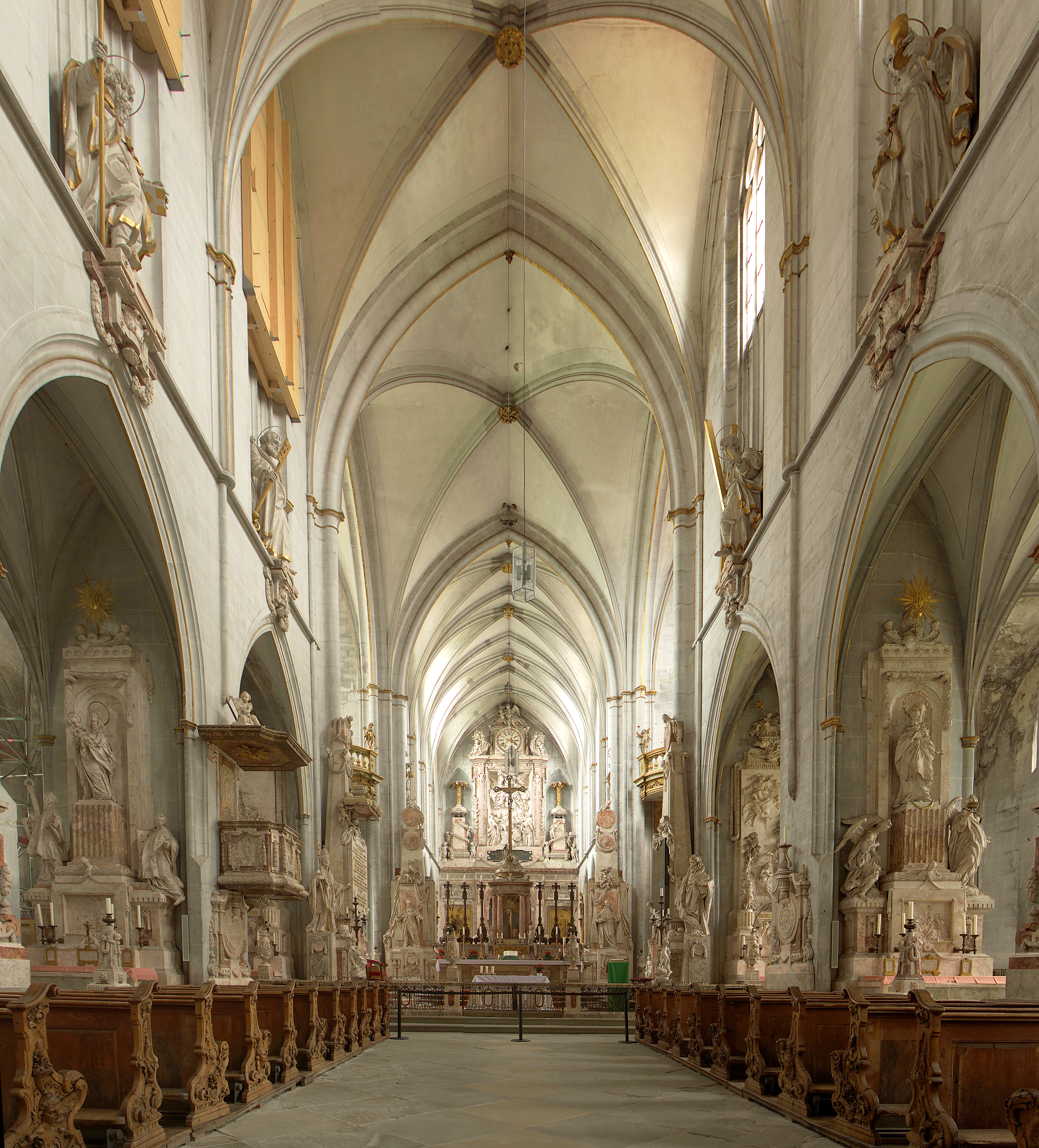 Interior of the abbey church "Unsere Liebe Frau", Salem, Baden-Württemberg, Germany